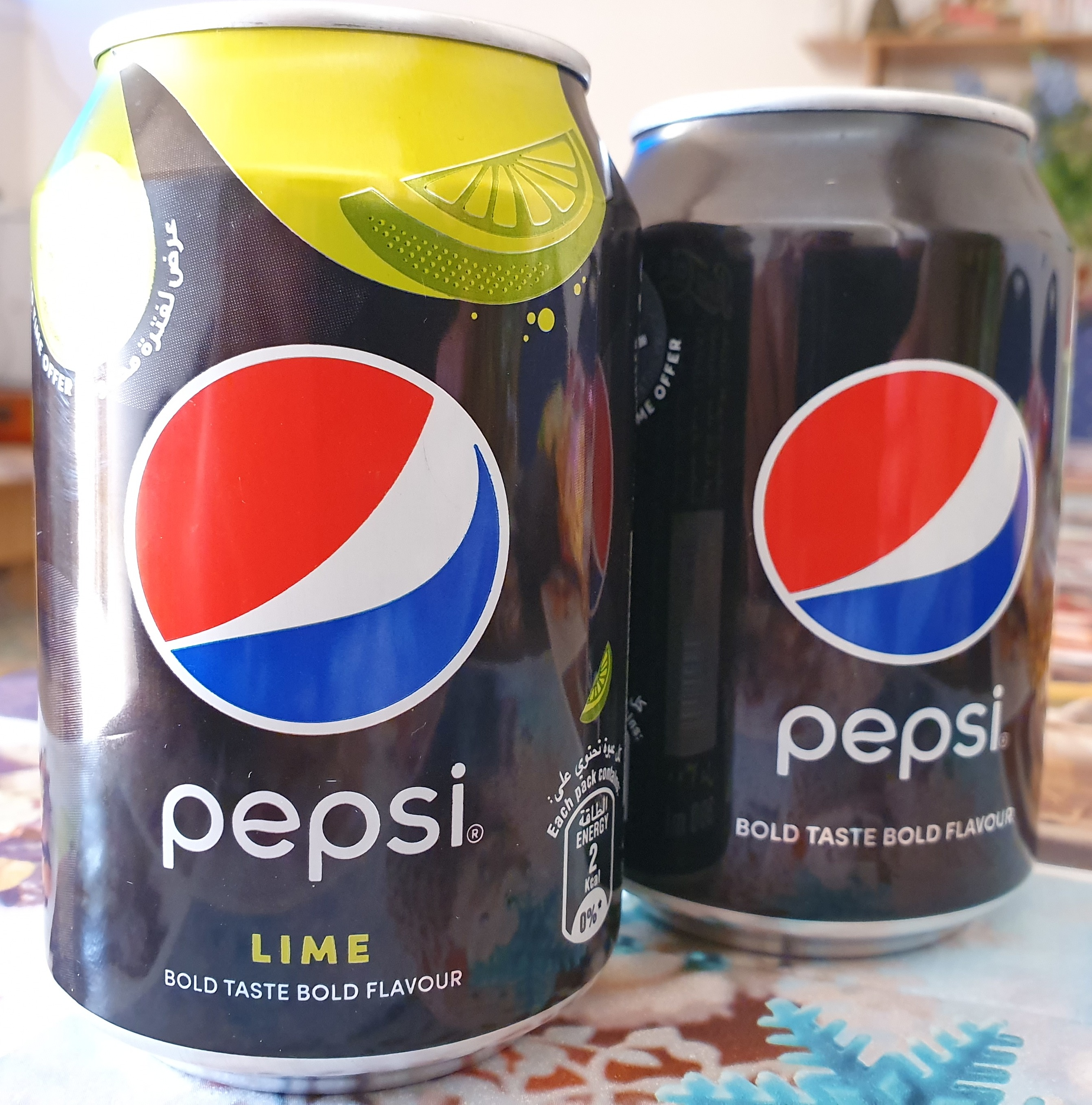 This is a picture of Pepsi Black both Lime and Original flavor with a bold taste